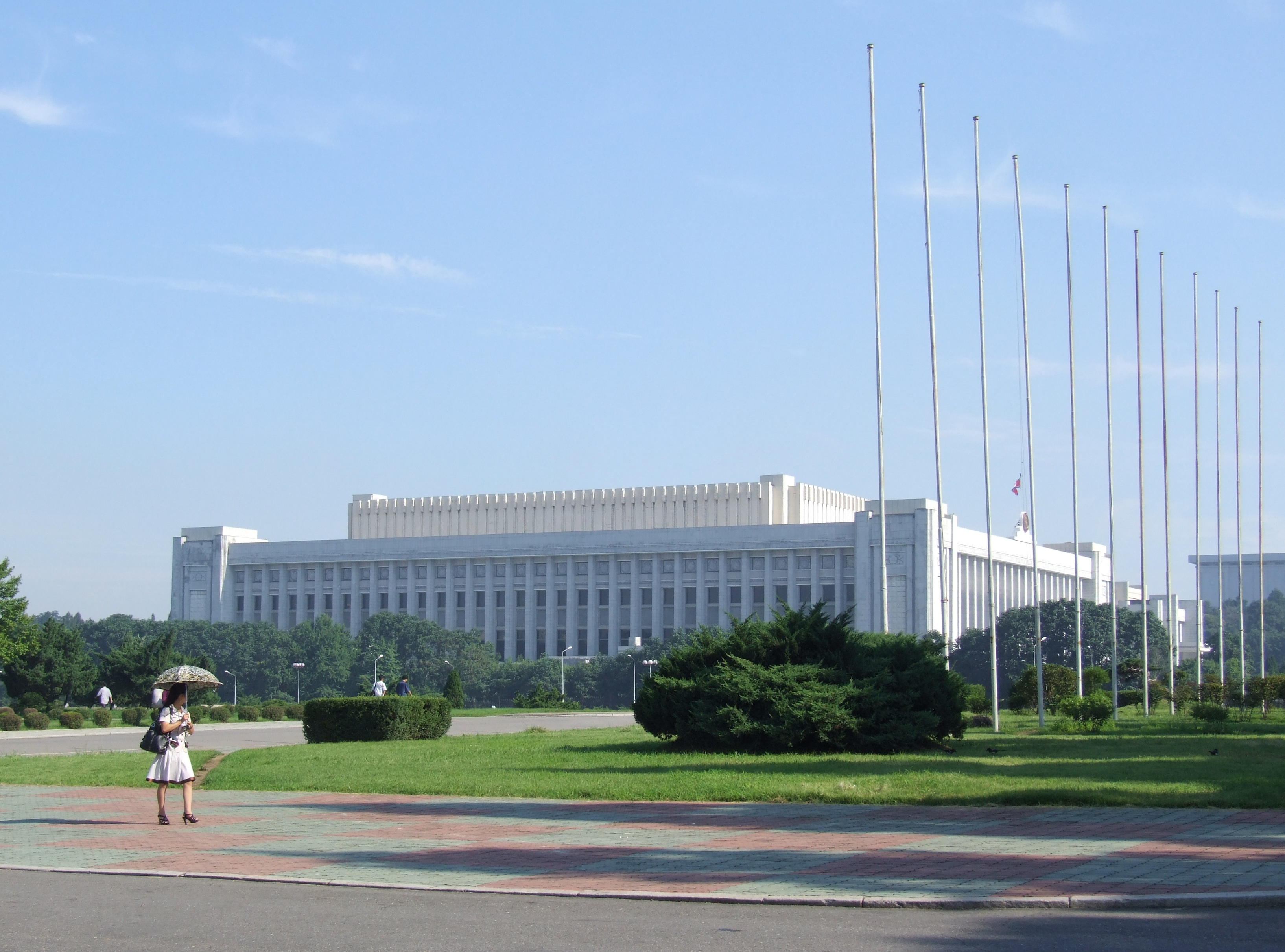 Mansudae Assembly Hall